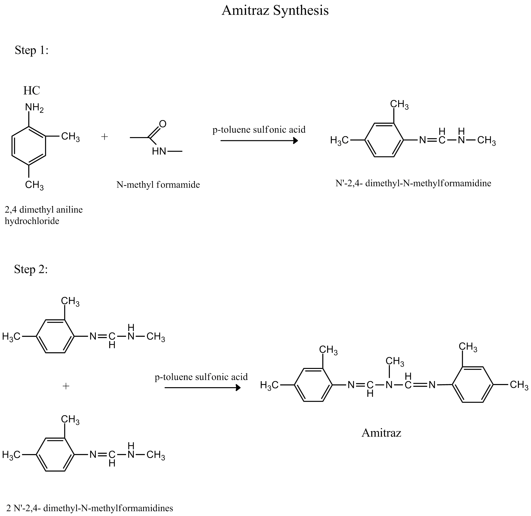 This file shows the different steps of amitraz synthesis via the reaction: Substituted formamide + aniline